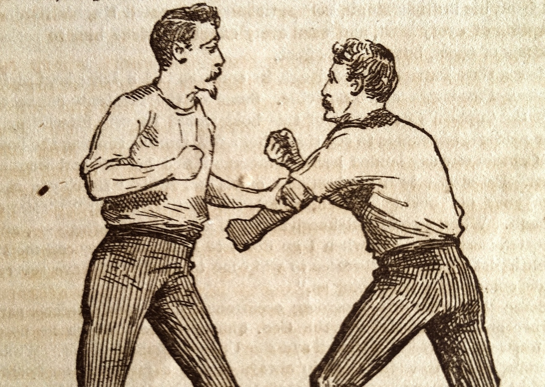 Image from Colonel Thomas Monstery's chapter on boxing